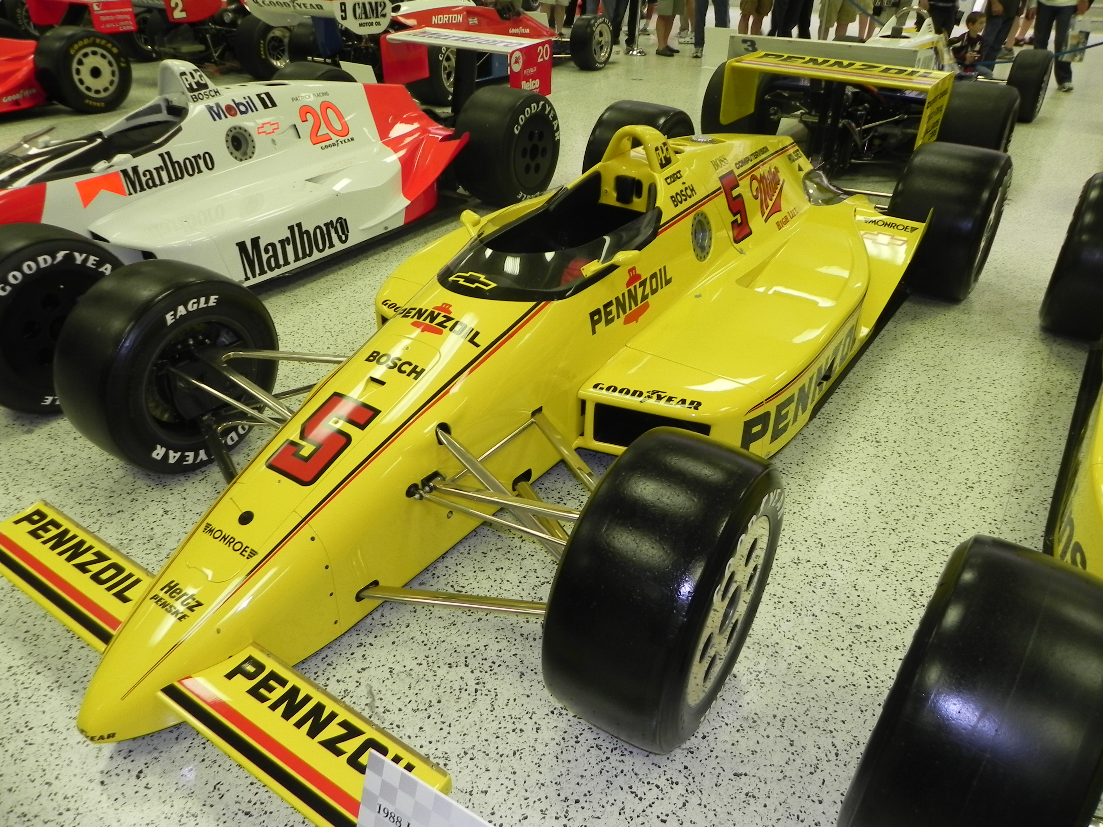 Image of the winning car of the 1988 Indianapolis 500 (Rick Mears). Photo was taken at the Indianapolis Motor Speedway Hall of Fame Museum, during the month of May 2011, at the 100th Anniversary "Ultimate Indianapolis 500 Winning Car Collection."